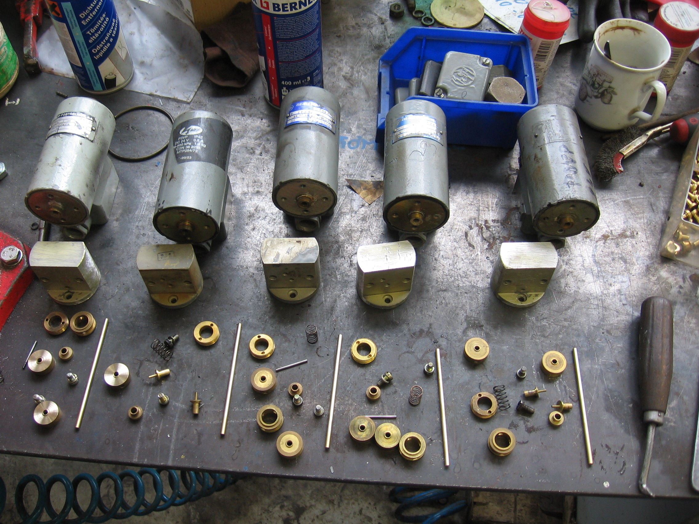 Solenoid valves maintenance